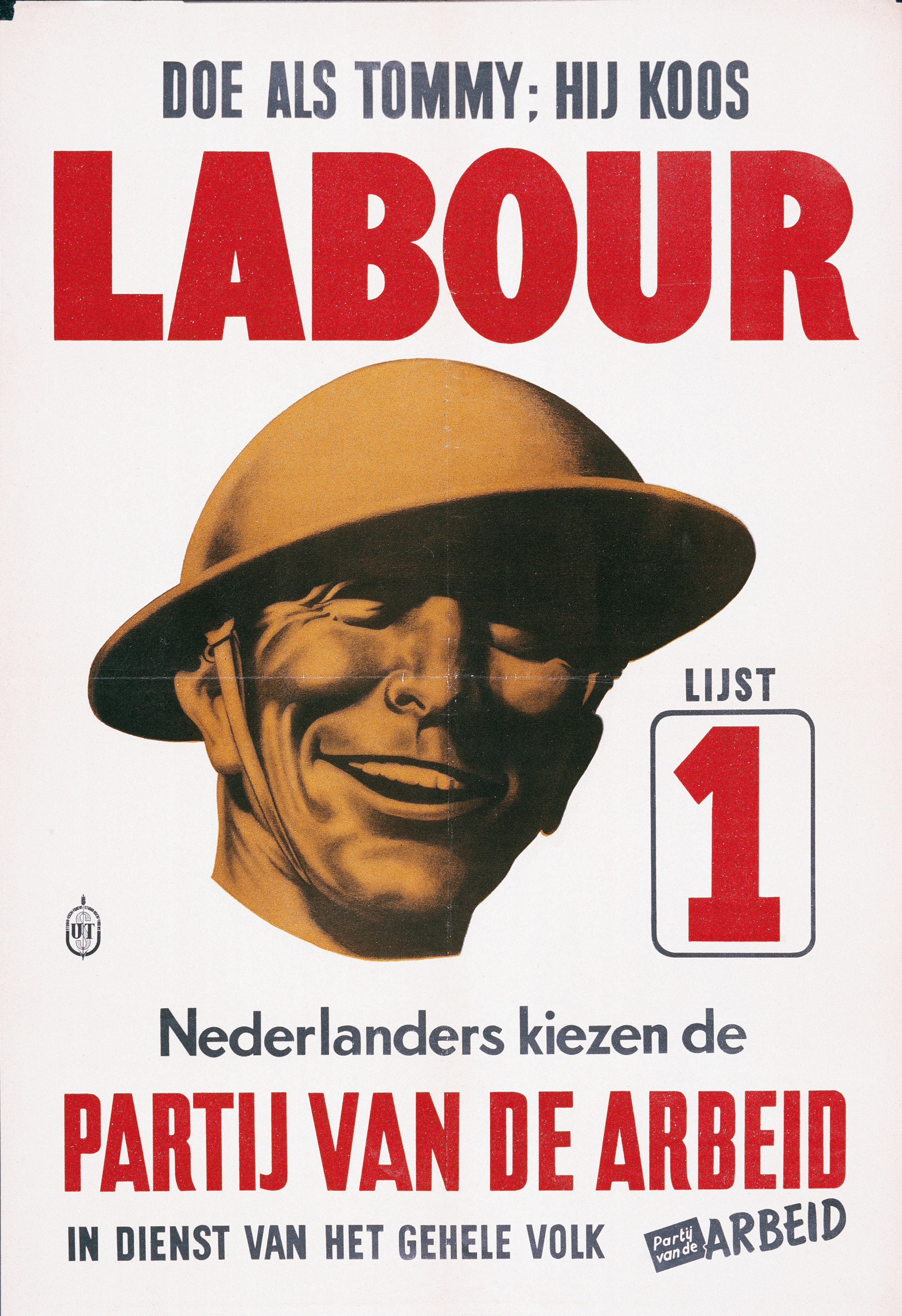 1946 poster in the national elections for the Dutch labour party. It appeals to voters by pointing out the electoral success of their British counterparts in the 1945 UK elections. "Do as Tommy; he chose Labour. [The] Dutch choose the Labour Party. In service to the entire people."